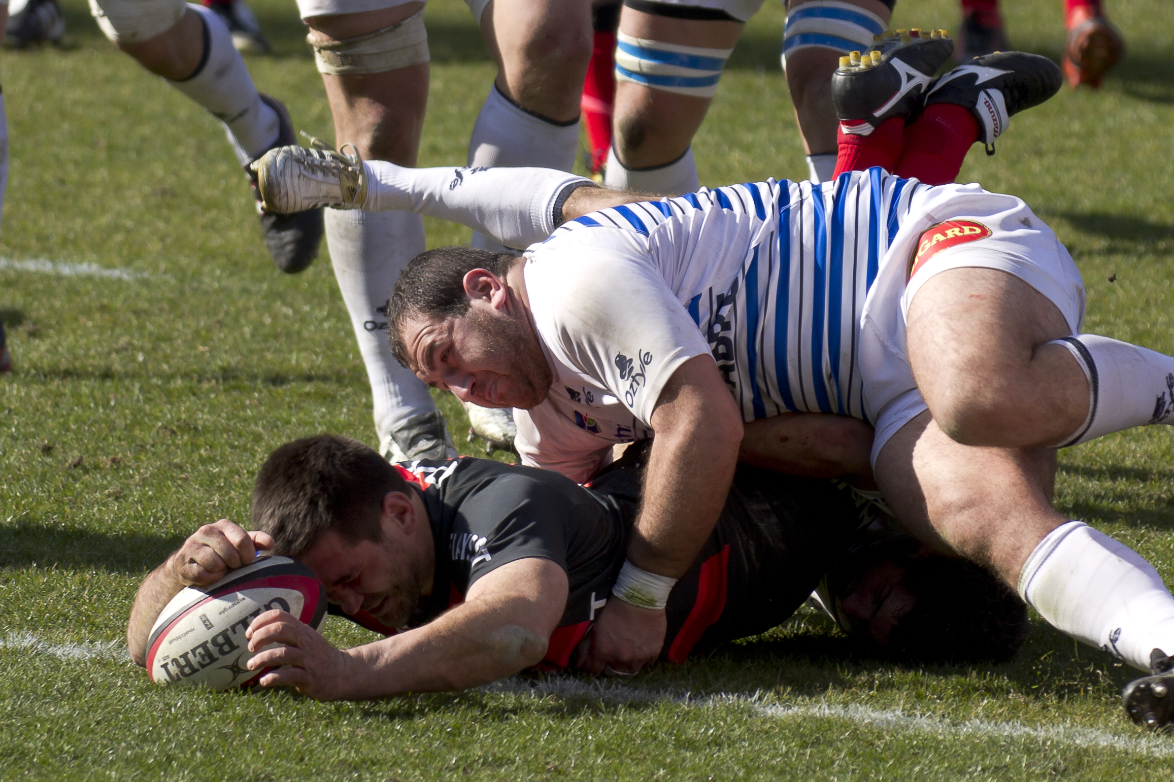 Try by Florian Fritz